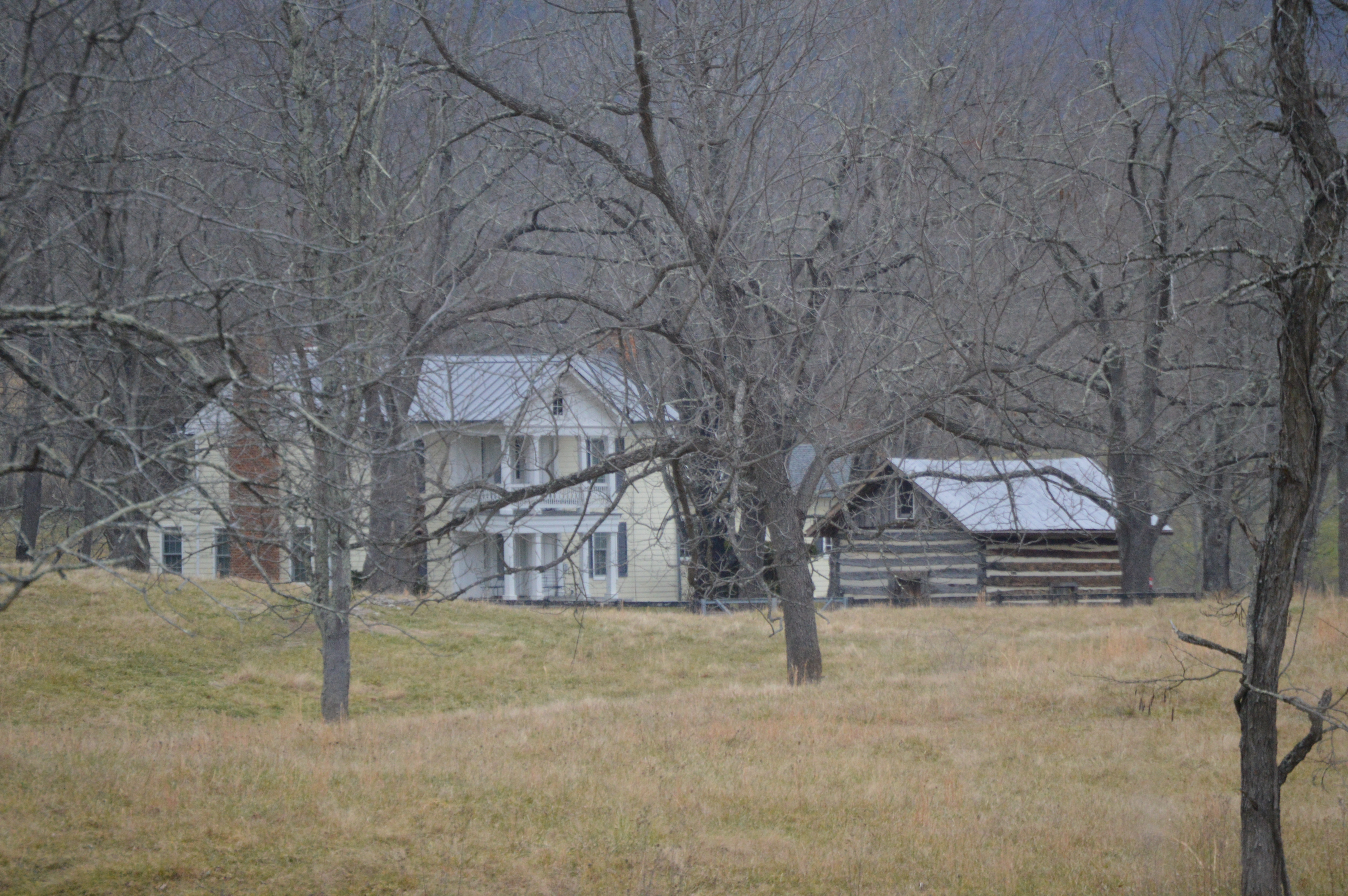 The main house (1855; later expanded) and one log outbuilding (1870) at the Slusser-Ryan Farm, located at 2028 Mount Tabor Road north of Blacksburg in Montgomery County, Virginia, United States. The farmstead is listed on the National Register of Historic Places.